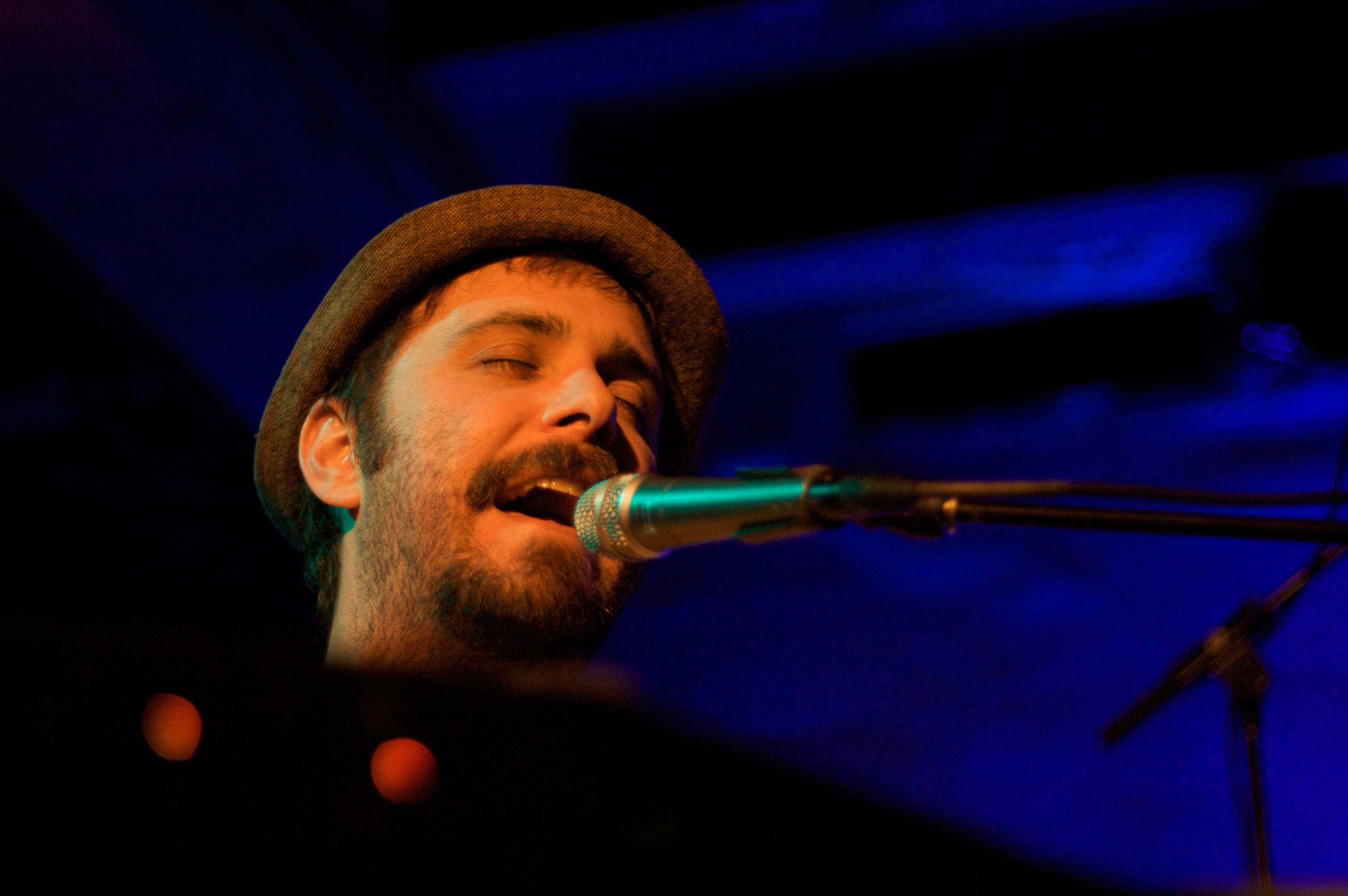 This image is provided under a Creative Commons Attribution License, please credit "Christian Reed - Concert Co-Op" and link back to this page if you'd like to use it. A quick email at letting me know that you're using it is always nice too. I like to see where they end up. For commercial uses the subjects will need to be contacted for consent and/or license. Please contact me if you'd like to discuss license for use with no attribution. See more of my photos at , and submit your own images to get featured on Concert Co-Op at .